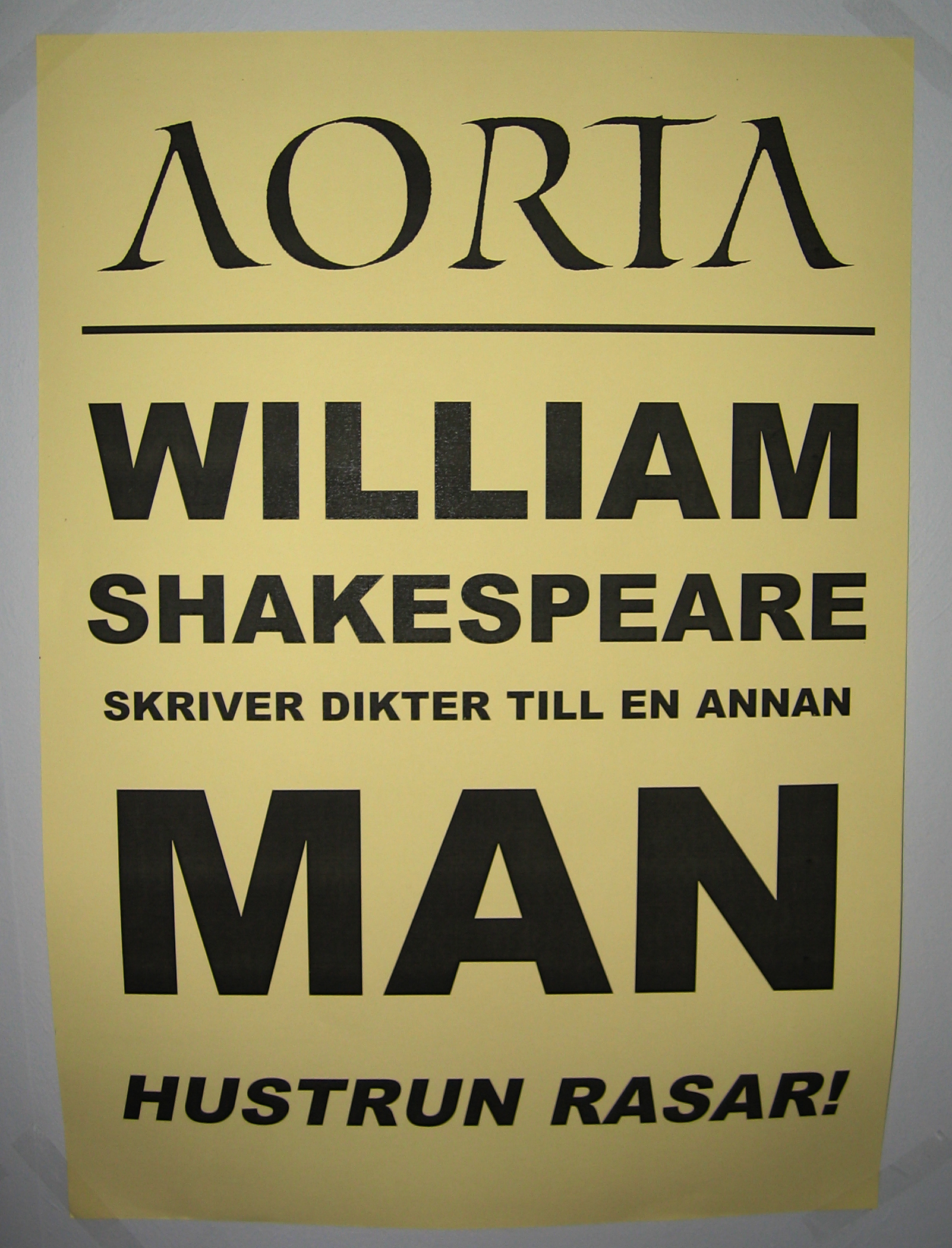 Photo of a commercial for the magazine Aorta. Photo taken outdoors in Gothenburg 2006, during the Bok- och biblioteksmässan 2006.